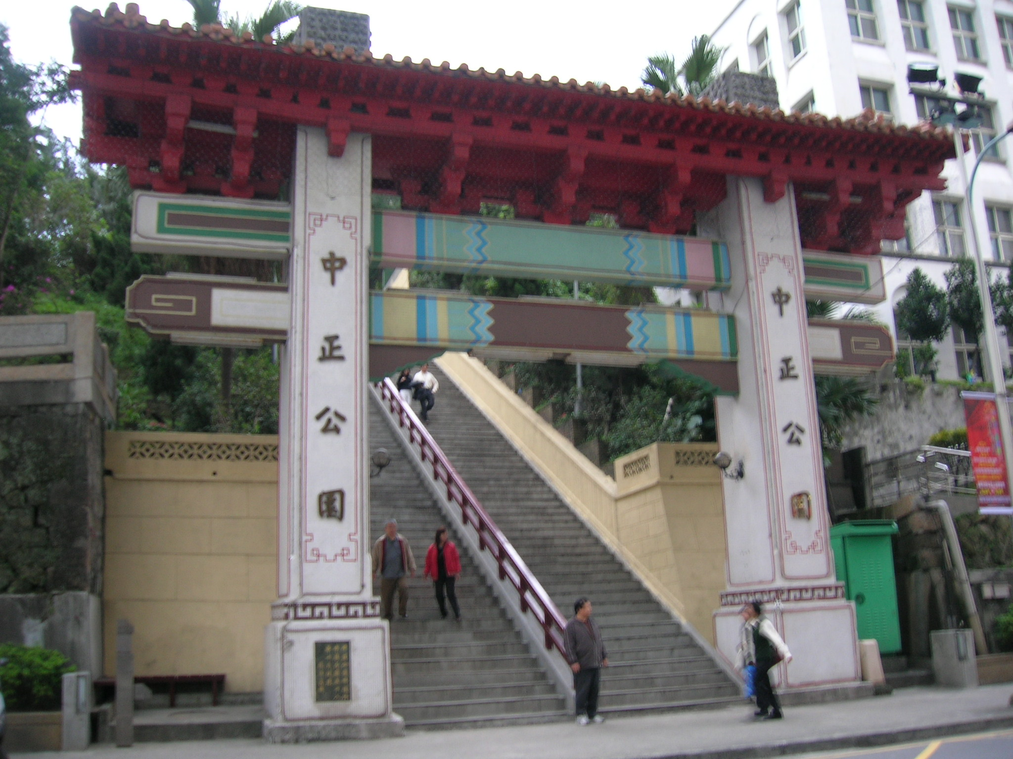 Chung Cheng Park Monument, Keelung City.